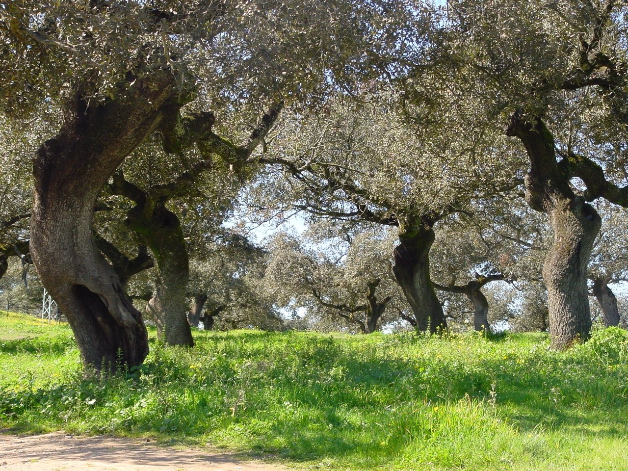 Imagen típica de Dehesa Extremeña en Higuera la Real